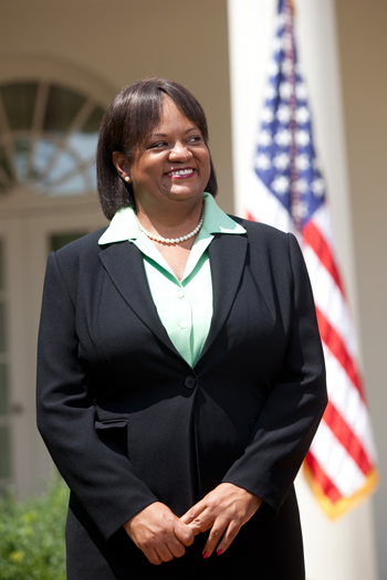 Regina Benjamin, Alabama physician nominated for the position of Surgeon General of the United States by President Barack Obama.